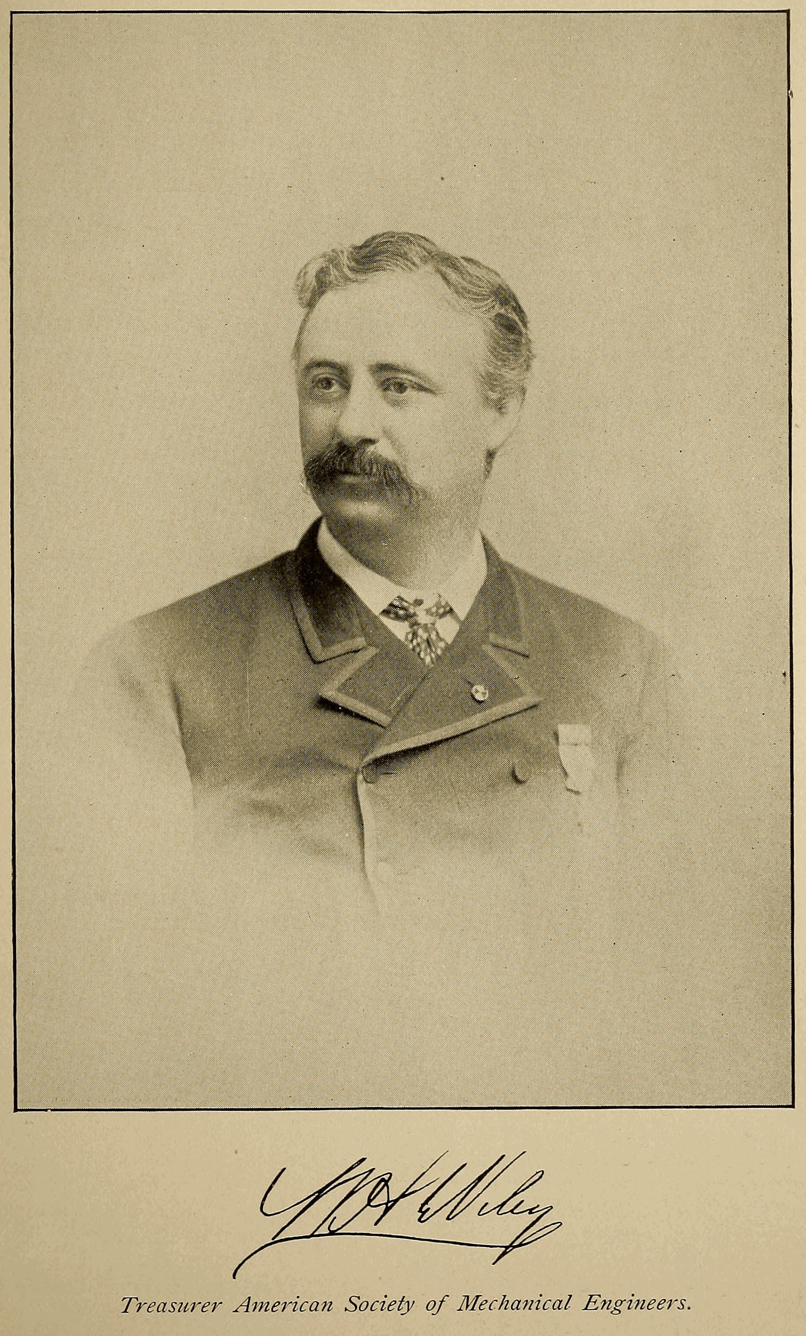 Cassier's Magazine of December 1891 had an article about the American Society of Mechanical Engineers. This photo of the treasurer, William H. Wiley, appeared on page 99.